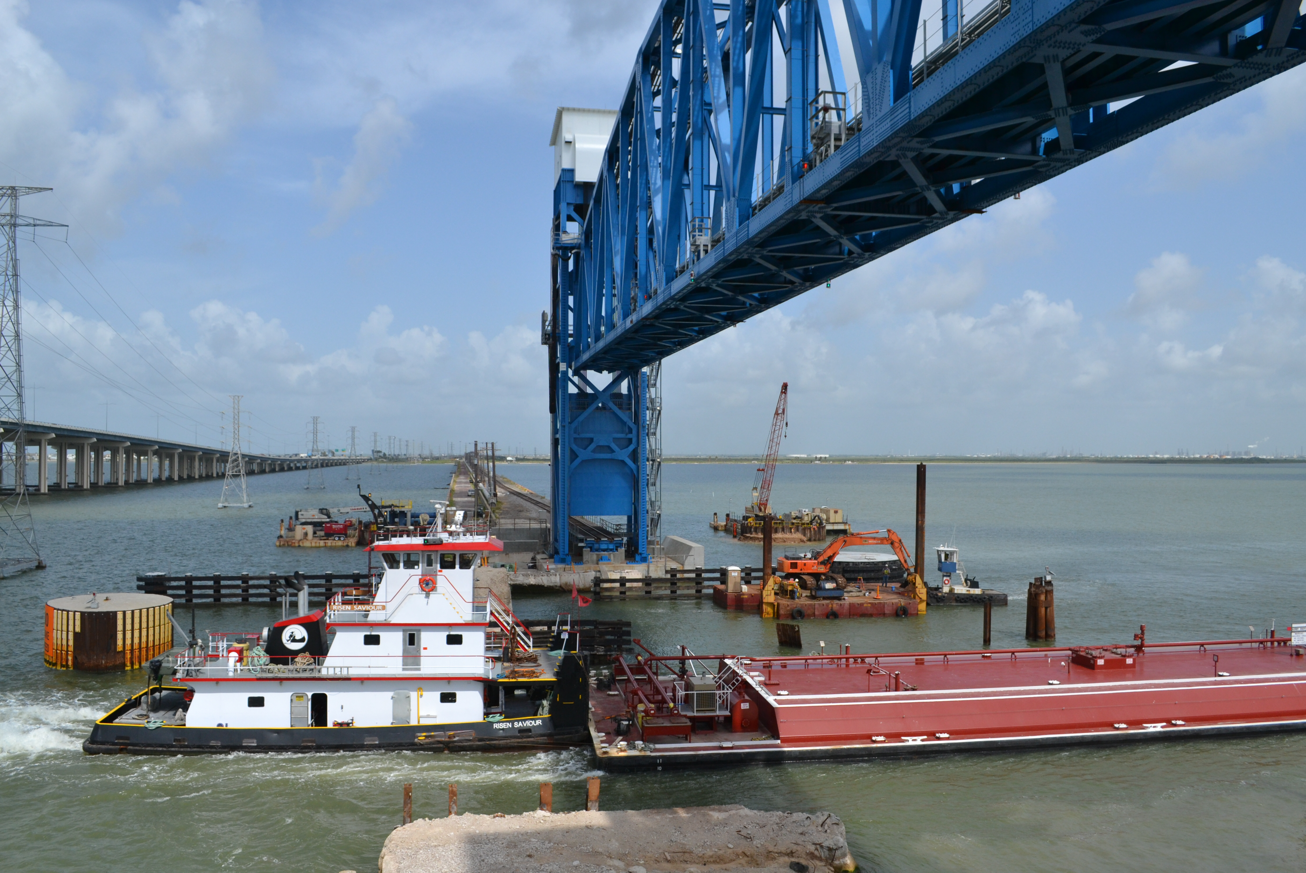 A tug pushes a barge under the new lift span of the BNSF Railway line along the old Galveston Causeway.